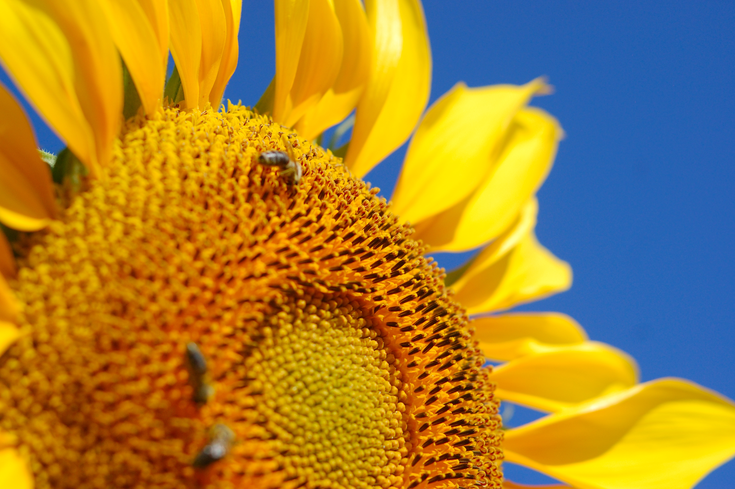 Sunflower